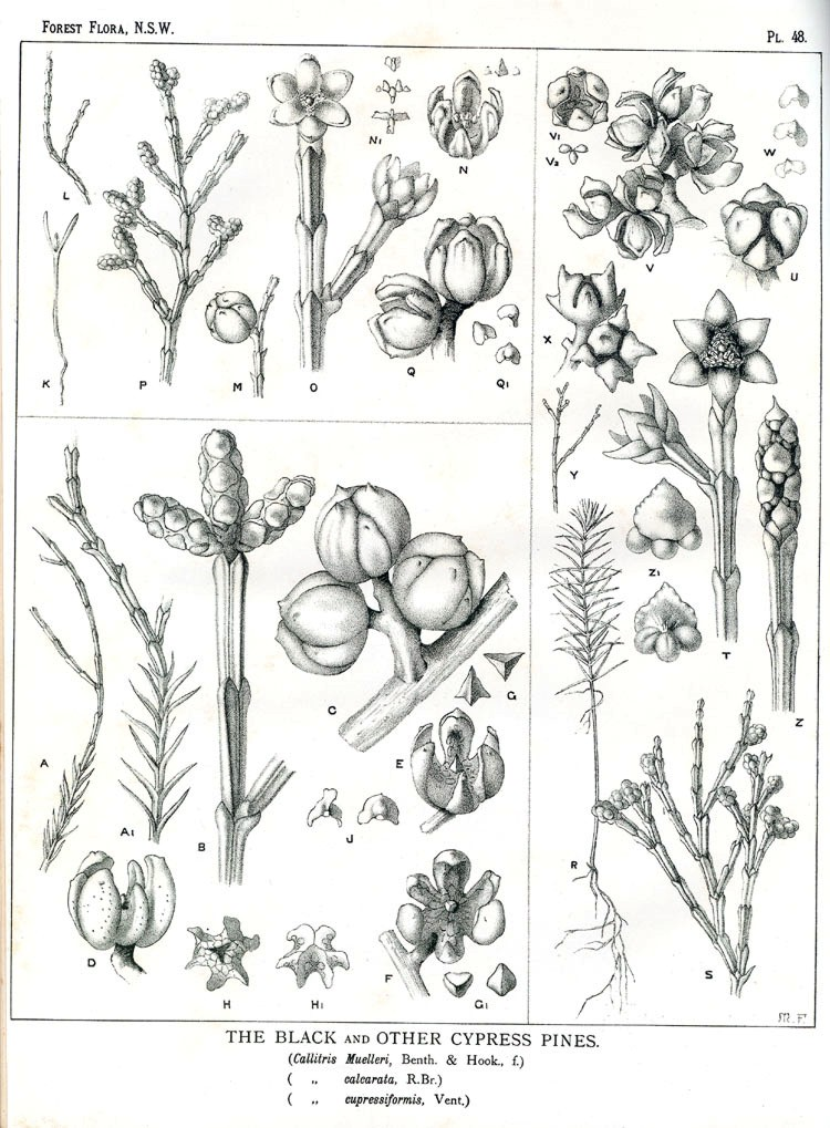 Plate 48 from "Forest Flora of New South Wales" A-J: Callitris muelleri (Parl.) Benth. & Hook.f. ex F.Muell. K-Q: Callitris calcarata (A.Cunn.) R.Br. = Callitris endlicheri (Parl.) F.M.Bailey R-Z: Callitris cupressiformis Vent. = Callitris rhomboidea R.Br. ex Rich.